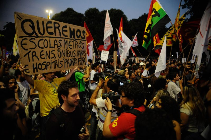 Protests during the World Fights against the Cup Day at Avenida Presidente Vargas, downtown Rio de Janeiro.In the sign: "We want FIFA standard schools, undergrounds, trains, buses, ferries and hospitals."